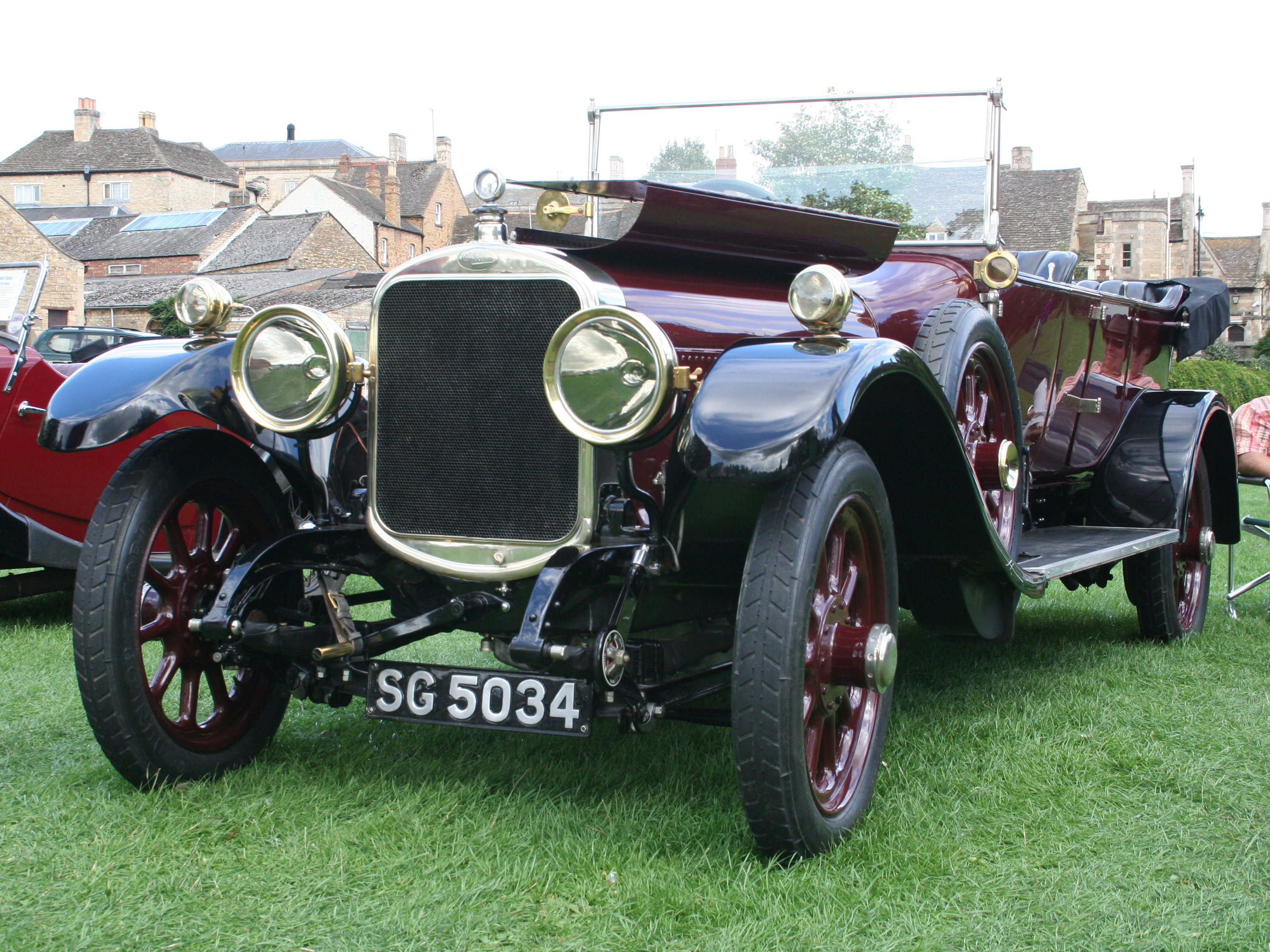 1922 Sunbeam 24? HP tourer DVLA first registered 23 March 1922, 3445 cc Descriptions: 1921 Sunbeam side-valve 24 hp fitted with original 5-seater tourer coachwork. Chassis 24/7099/21 Source SG 5034 1921 Sunbeam 24/60hp 4-seat Tourer (the property of the late J Ball) Christie's sale catalogue Beaulieu 14 July 1988] 1921 Sunbeam 24 hp, 4.5-litre source